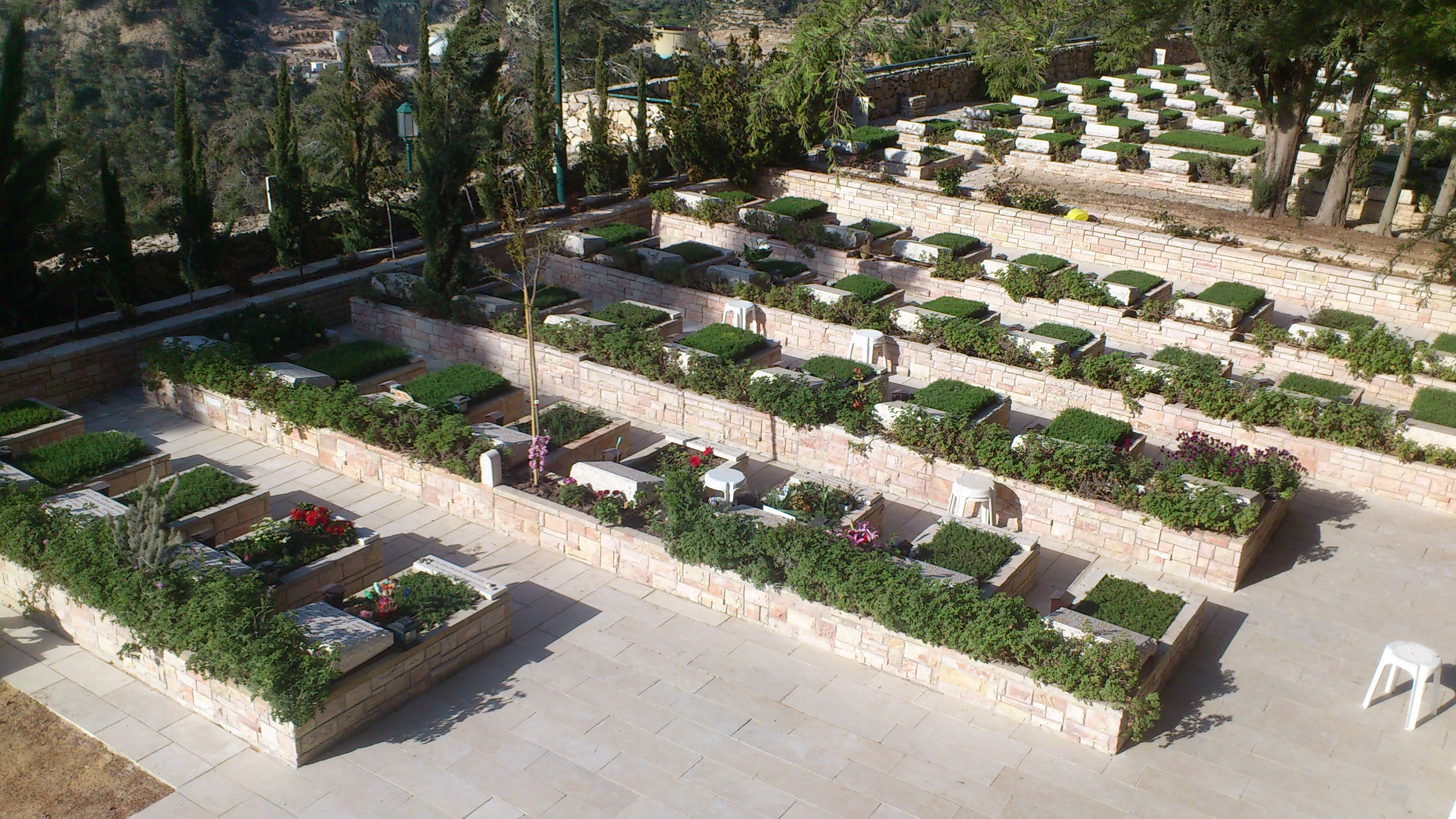 the Police Plot in Mount Herzl